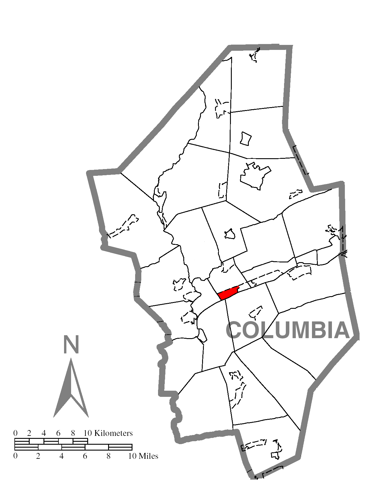 A map of Columbia County showing Espy, Pennsylvania (alternate) highlighted on the map.